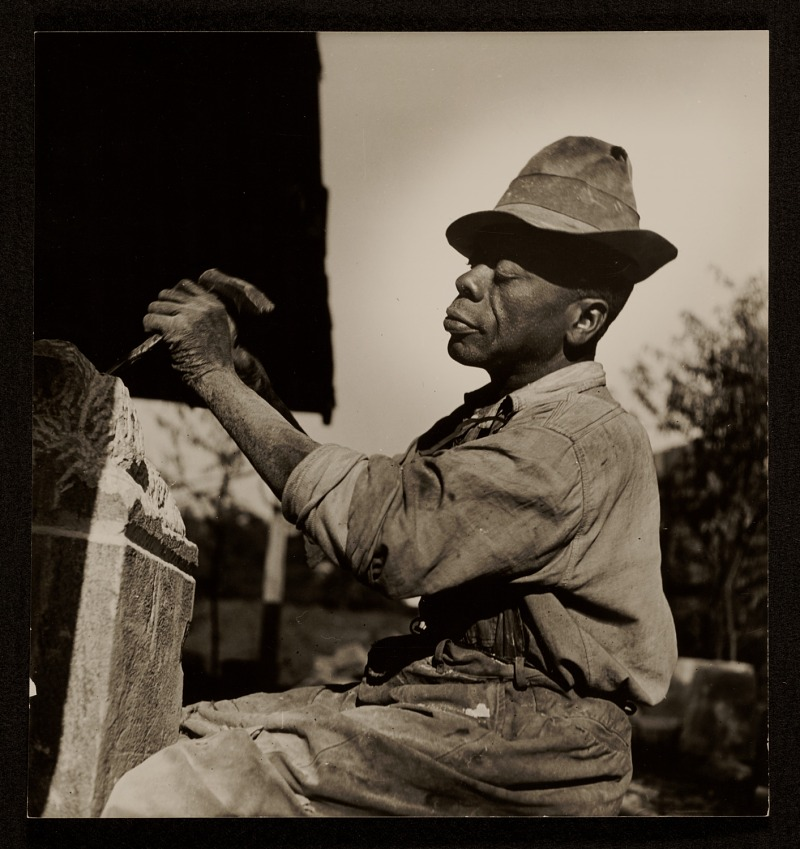 William Edmonson at work American sculptor William Edmondson working on a sculpture in 1937